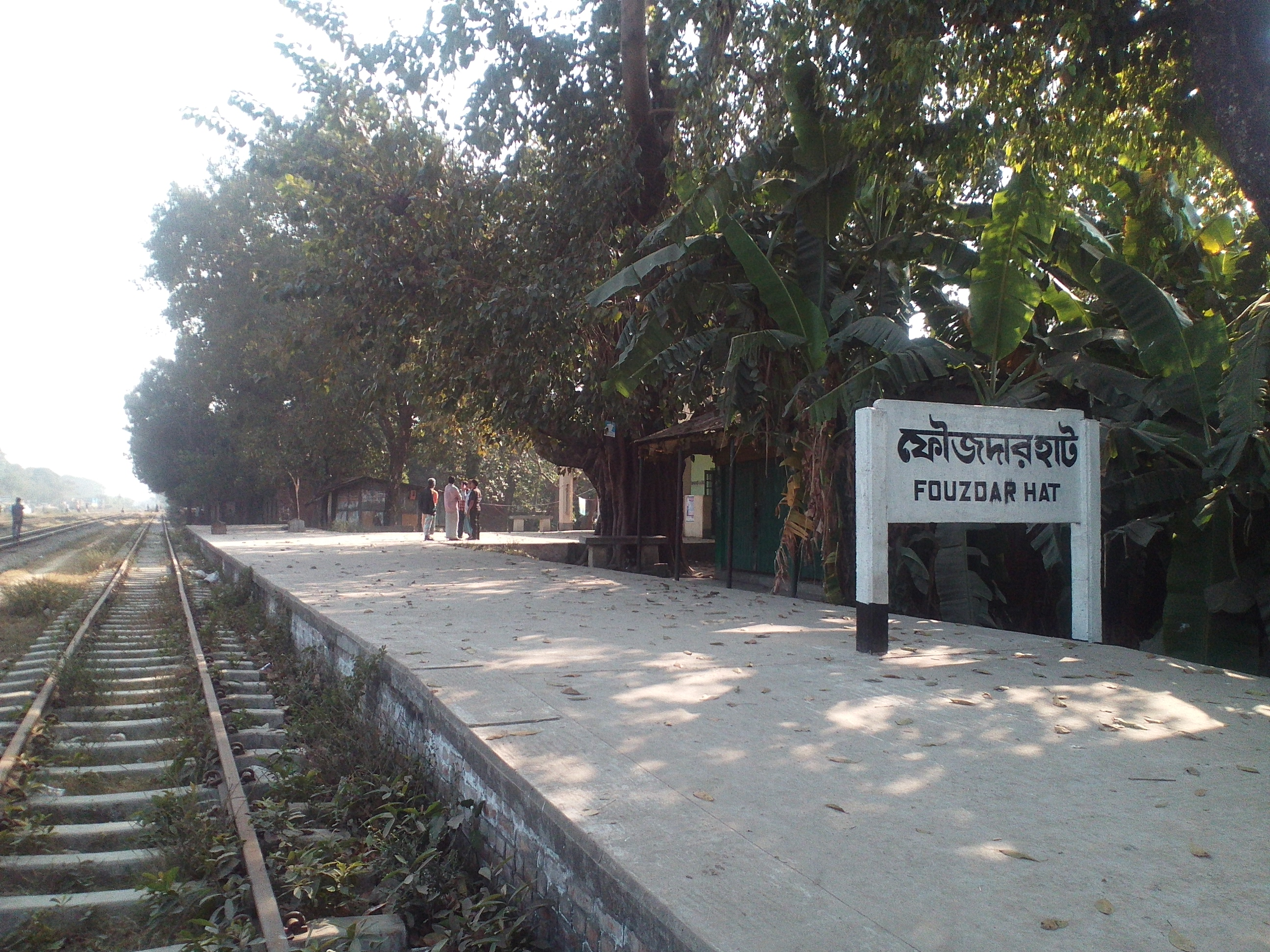 This is the image of Fouzdarhat Railway Stations signboard.